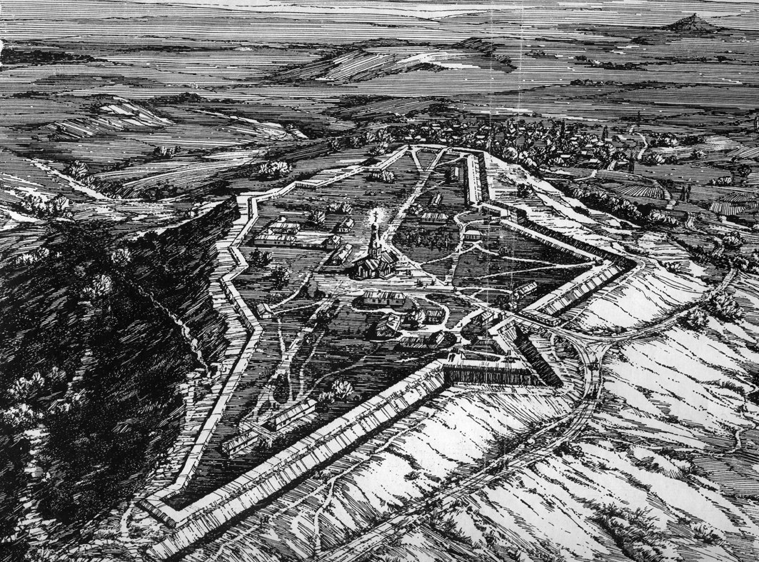 Stavropol, XVIII